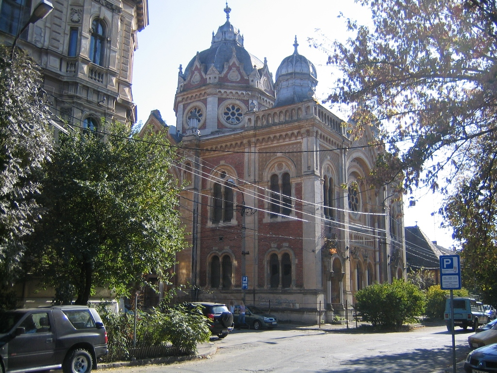 Synagogue in the old Fabric quarter, in Timisoara, Romania